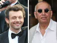 Michael Sheen –at the 81st Academy Awards– y Frank Langella –at the 2007 Toronto International Film Festival–, actors of the United States of América